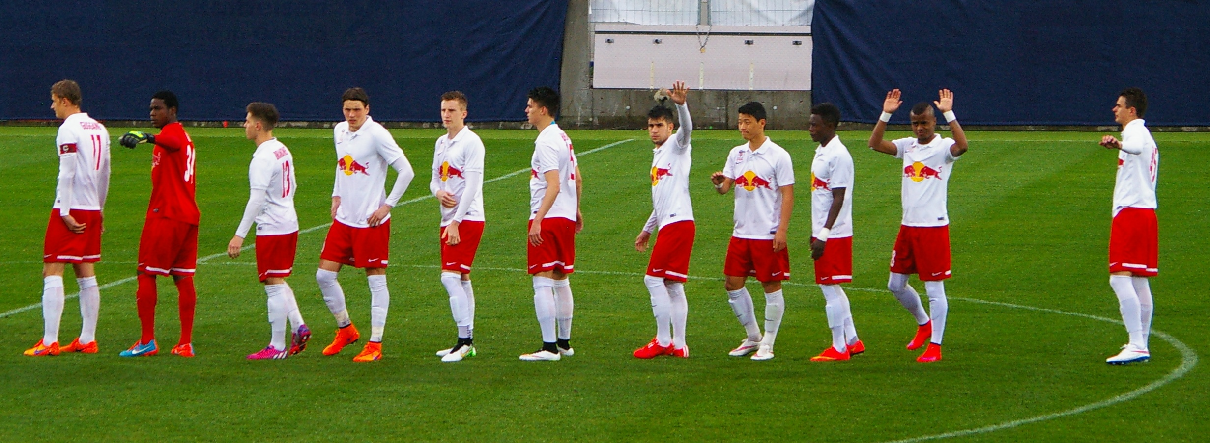 league match austria 2nd league